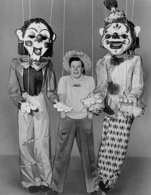 Photo of Jimmie Dodd (center) as the television host for the 1956 Hudson's Thanksgiving parade. The item has no copyright markings on it as can be seen in the links above.